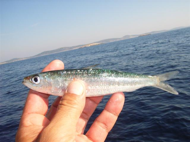 Sardina pilchardus collected in Vrtlac, Dalmatia, Croatia.